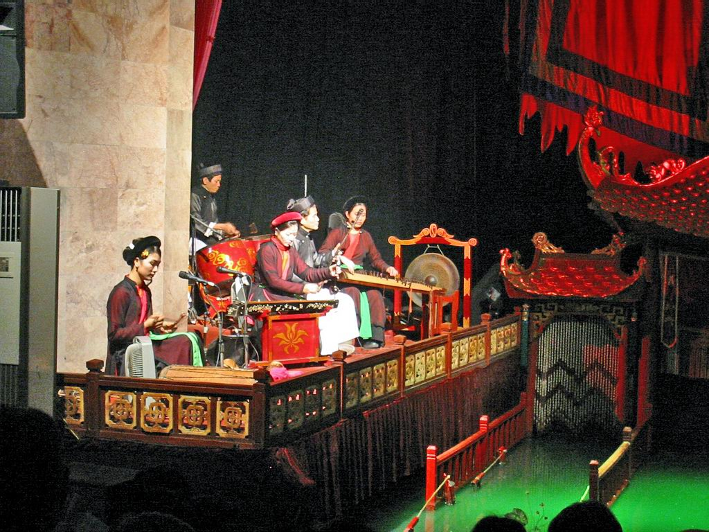 Orchestra of the Water Puppet Theatre Than Long in Hanoi, Vietnam